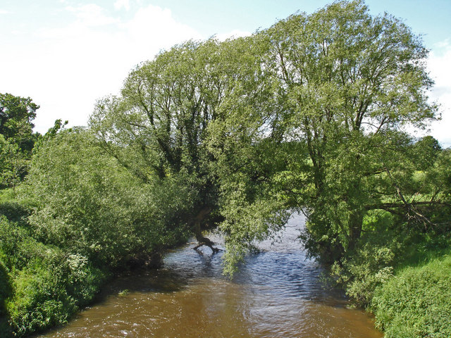 River Dane River Dane, view downstream (towards Northwich) from Shipbrook Bridge, Davenham.